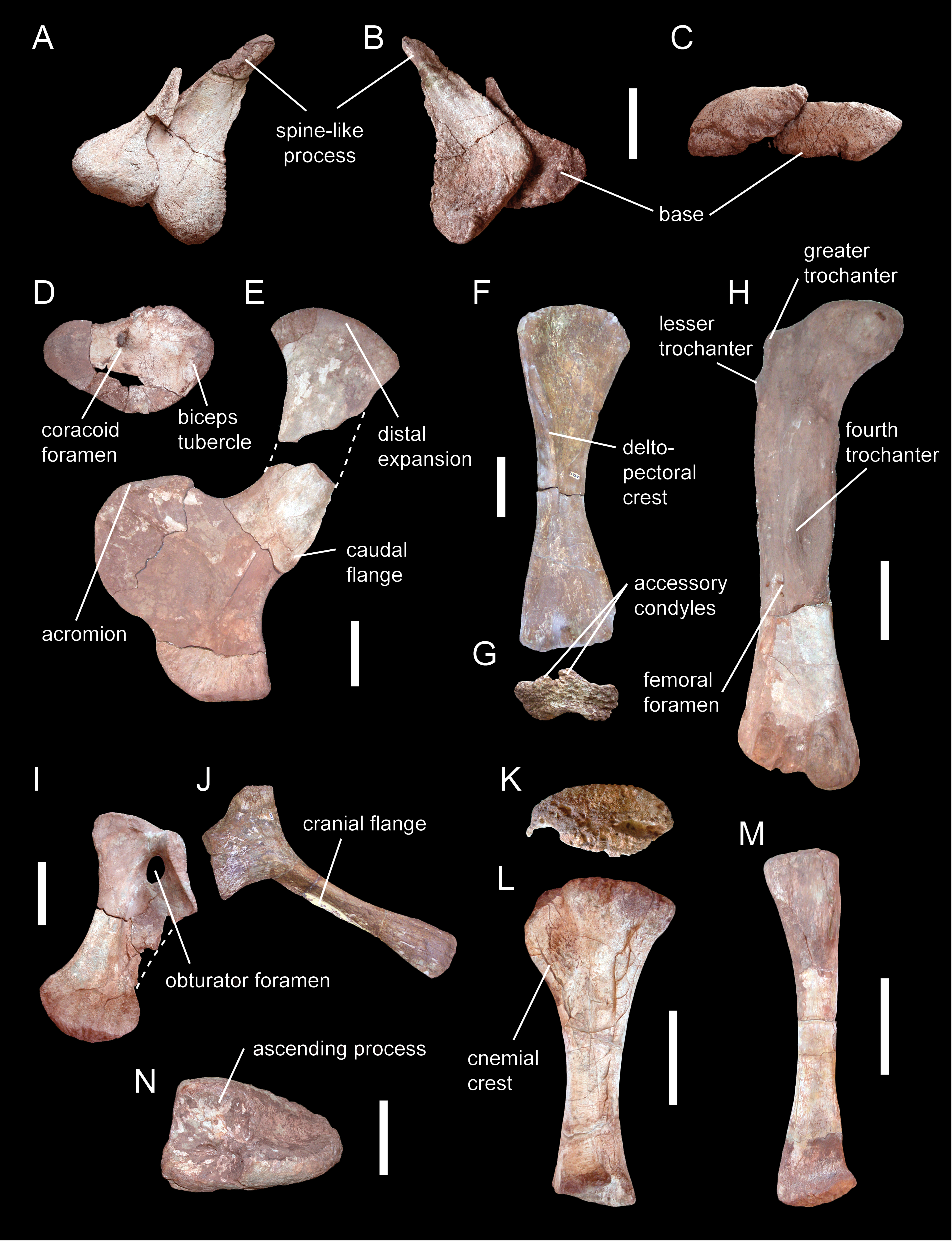 Spinophorosaurus nigerensis GCP-CV-4229/NMB-1699-R (holotype; A-E, H-N) and NMB-1698-R (paratype; F, G). (A-C)— Contralateral spike-like osteoderms in dorsolateral (A), ventral (B), and cranial (C) views. (D, E)— Left coracoid (D) and scapula (E) in left lateral views. (F, G)— Right humerus in cranial (F) and distal (G) views. (H)— Left femur in caudal view. (I)— Left pubis in left lateral view. (J)— Left ischium in lateral view. (K, L)— Left tibia in proximal (K) and lateral (L) views. (M)— Left fibula in medial view. (N)— Left astragalus in proximal view. Scale bars = 10 cm (A–C, N) and 20 cm (D–M).